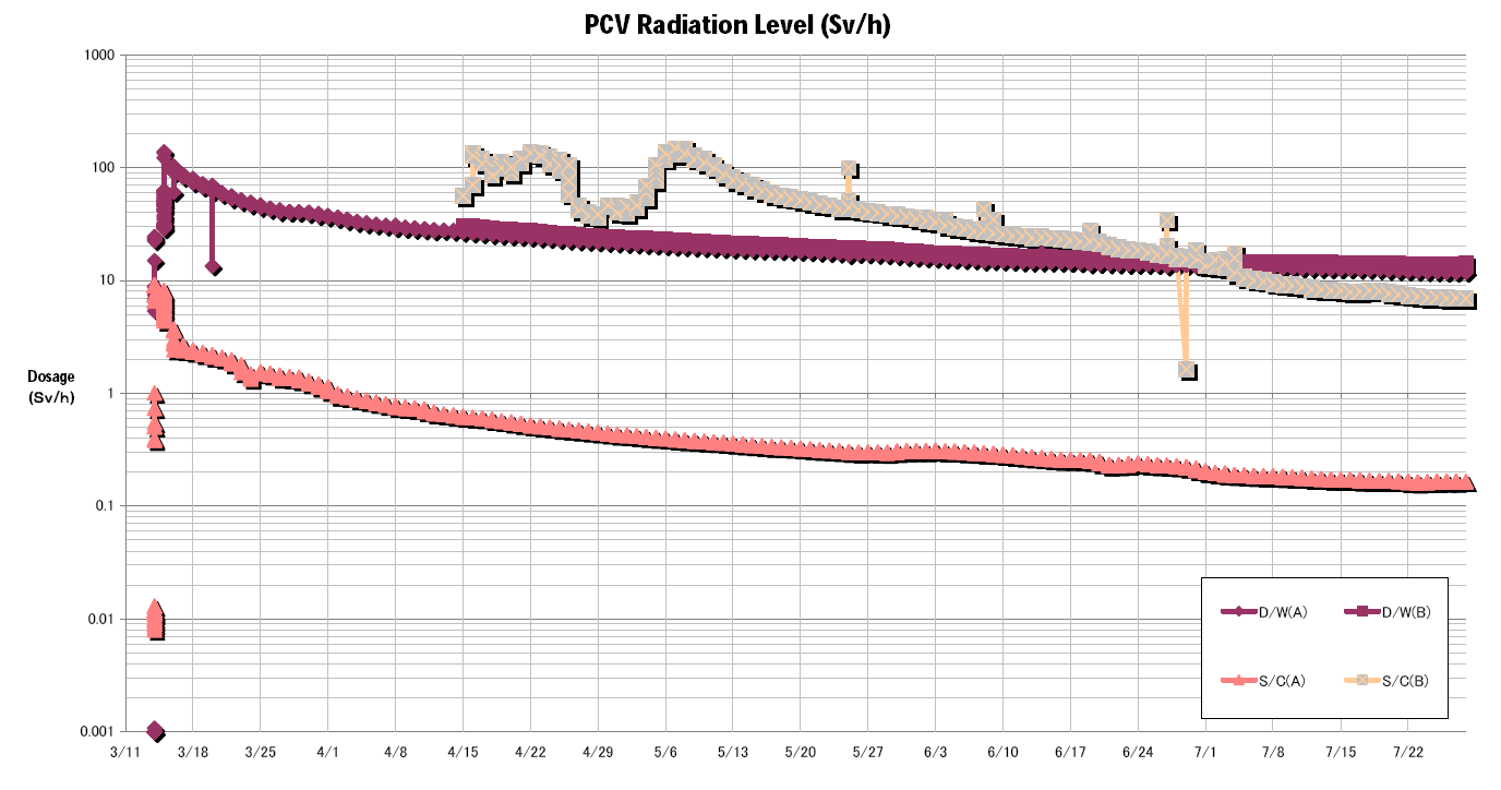 Fukushima I Nuclear Power Statation, Unit 2 containment radiation data. Data source: Tepco.